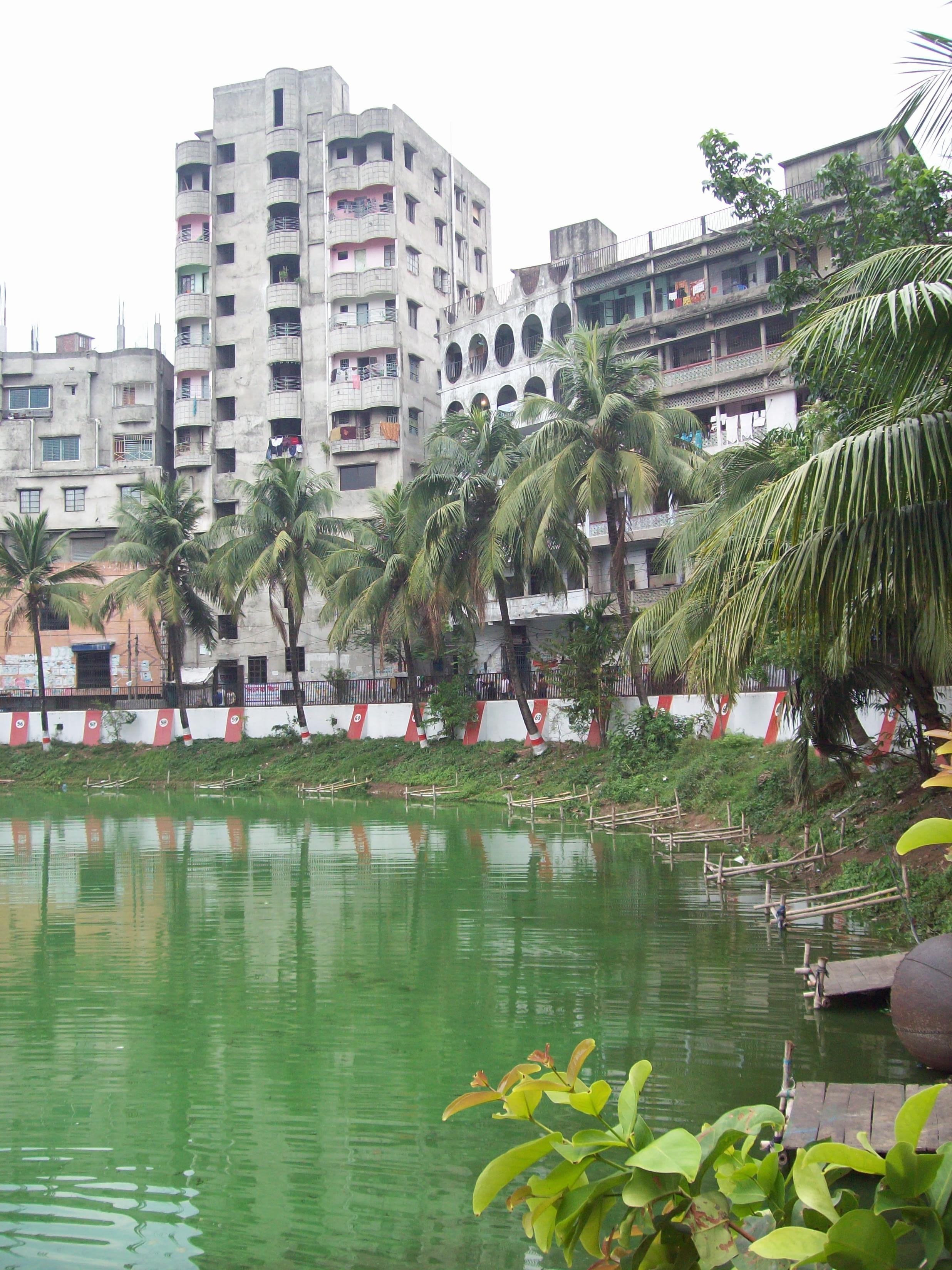 Gol talab,Islampur,Dhaka.